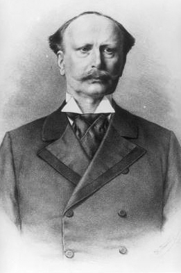 Aloys of Liechtenstein (born 1869)